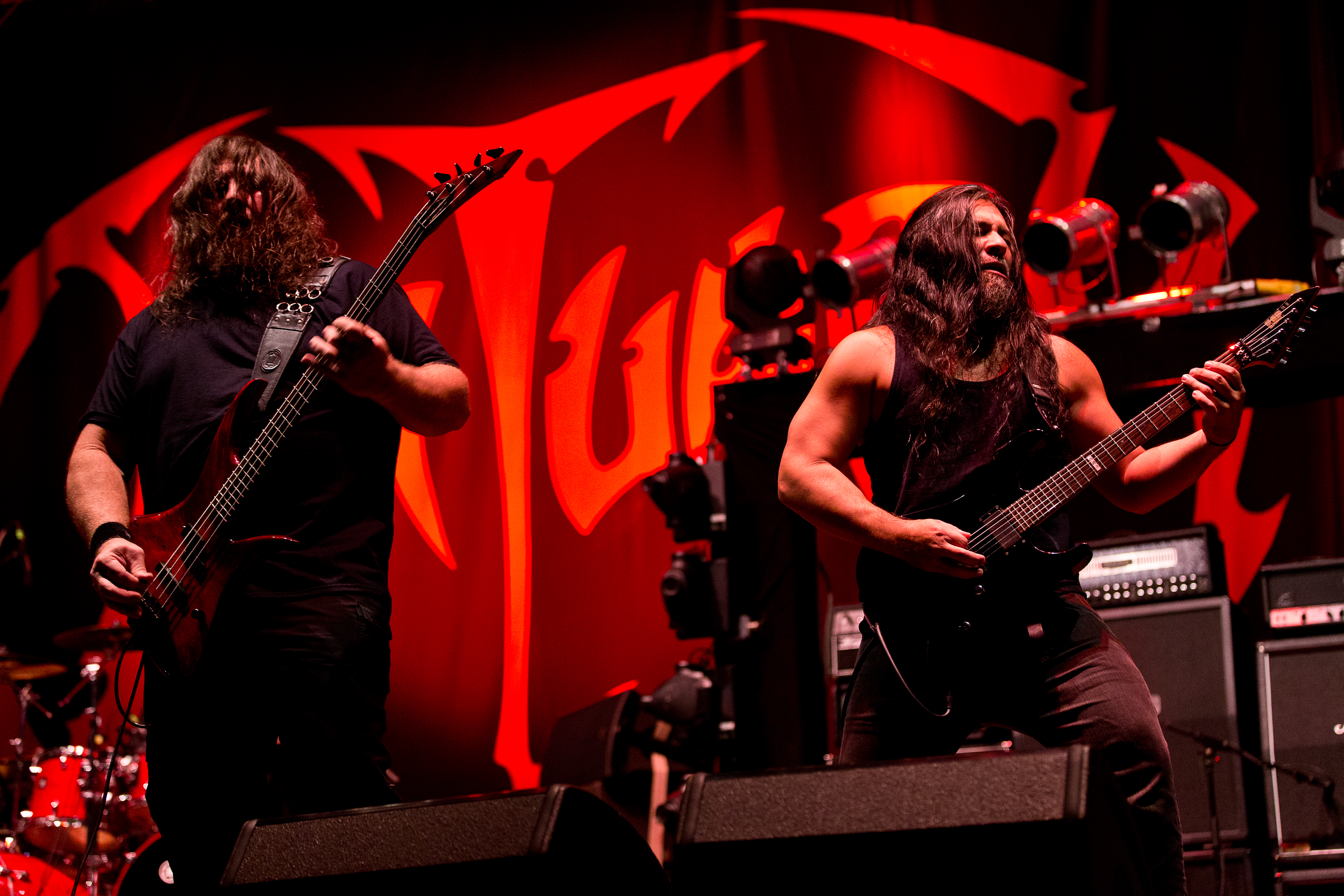 The US death metal band Obituary at the Party.San Metal Open Air 2016 in Obermehler-Schlotheim/Germany